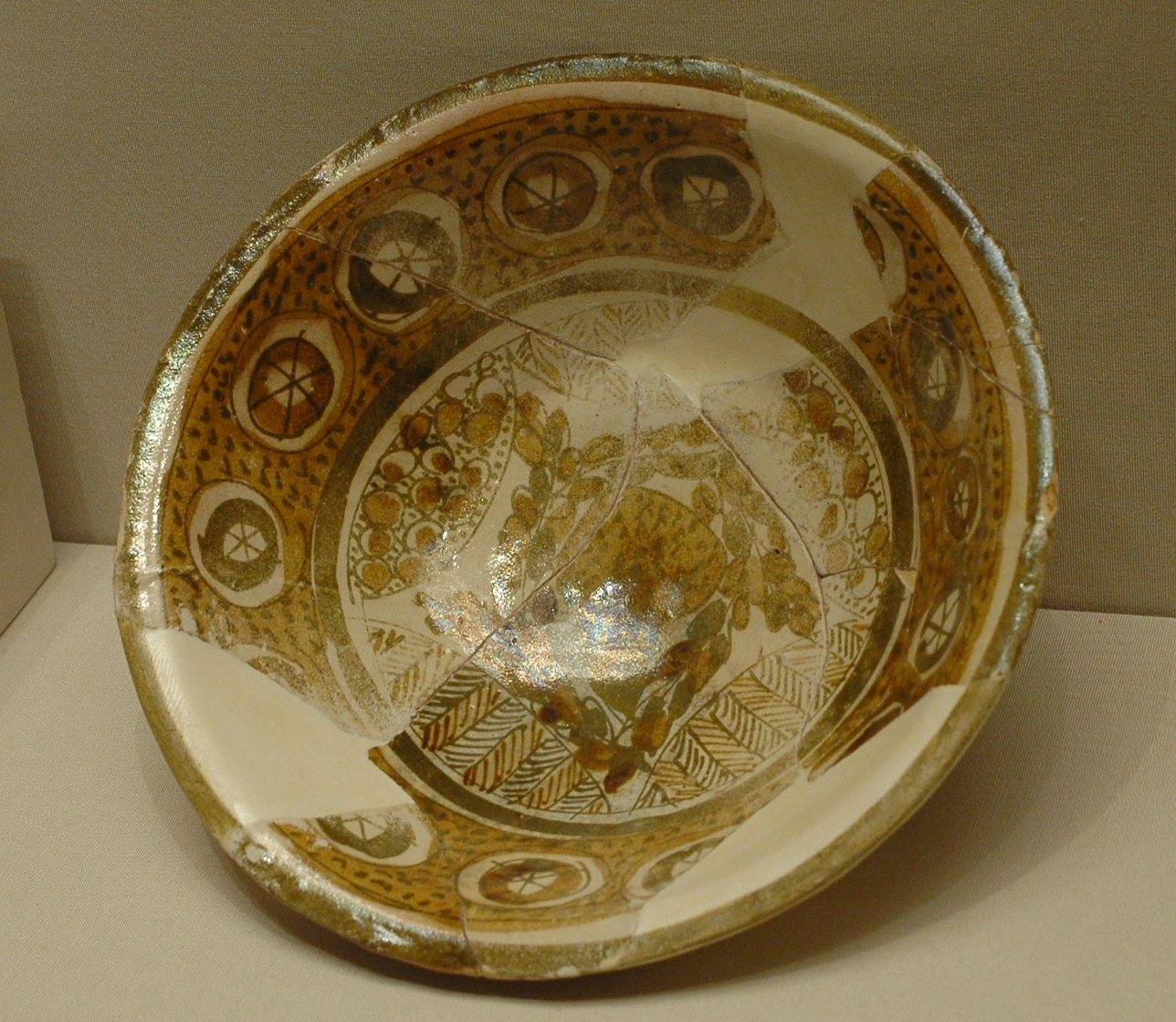 Cup.